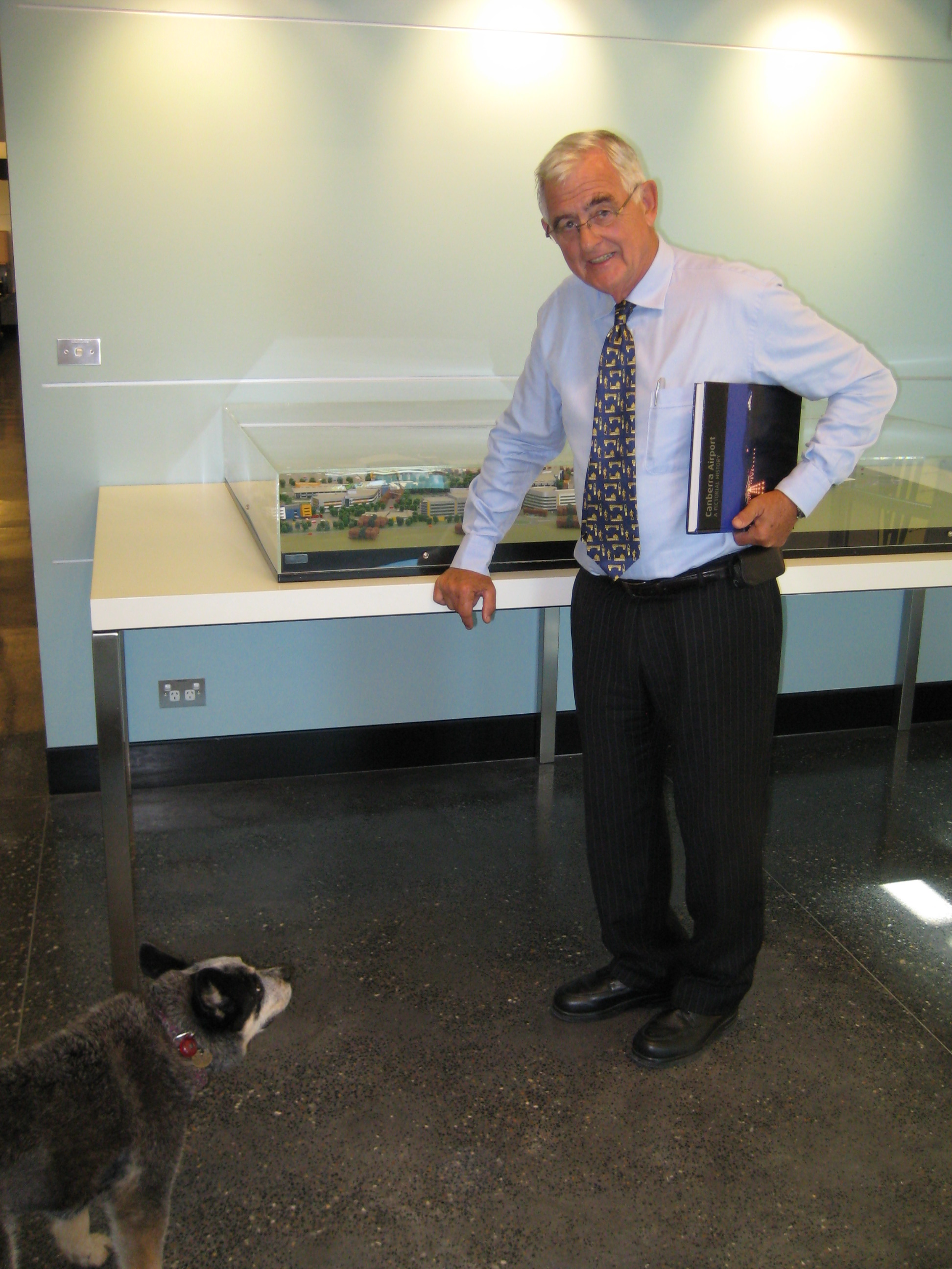 Terry Snow and his Blue Heeler, Chilli, that is the unofficial mascot for Canberra Airport. Snow is holding the book "Canberra Airport: A Pictorial History" (2009) by his wife, Ginette Snow. He is standing beside the model of Brindabella Business Park at the airport. Mr Snow was aware of that the picture was being taken for Wikipedia.